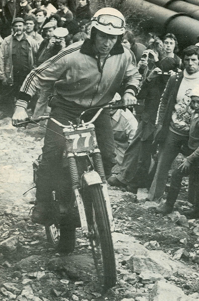 Malcolm Rathmell on his Montesa Cota 348 by 1977, durint the SSDT, near the Pipeline section